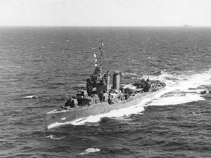 The U.S. Navy destroyer USS Hull (DD-350) at sea in May 1944, with an aircraft carrier and other ships in the distance.